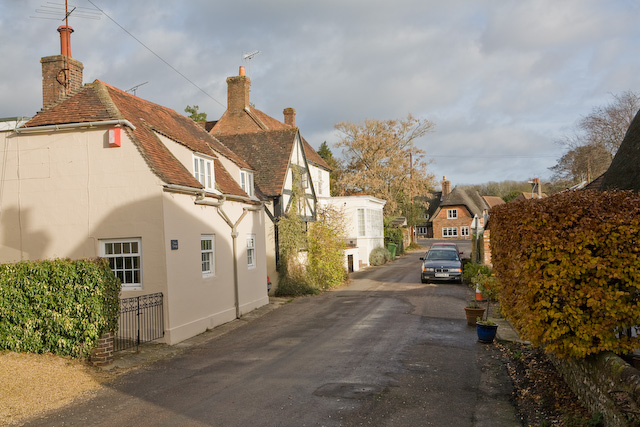 The Cross, West Meon This short street, which joins Church Lane to the High Street, forming the northern side of a triangle, may possibly be called The Cross, although Royal Mail postcode finder is extremely confused about it. At any rate, a house named The Cross is behind photographer on left. The A32 crosses in front of thatched house in distance.